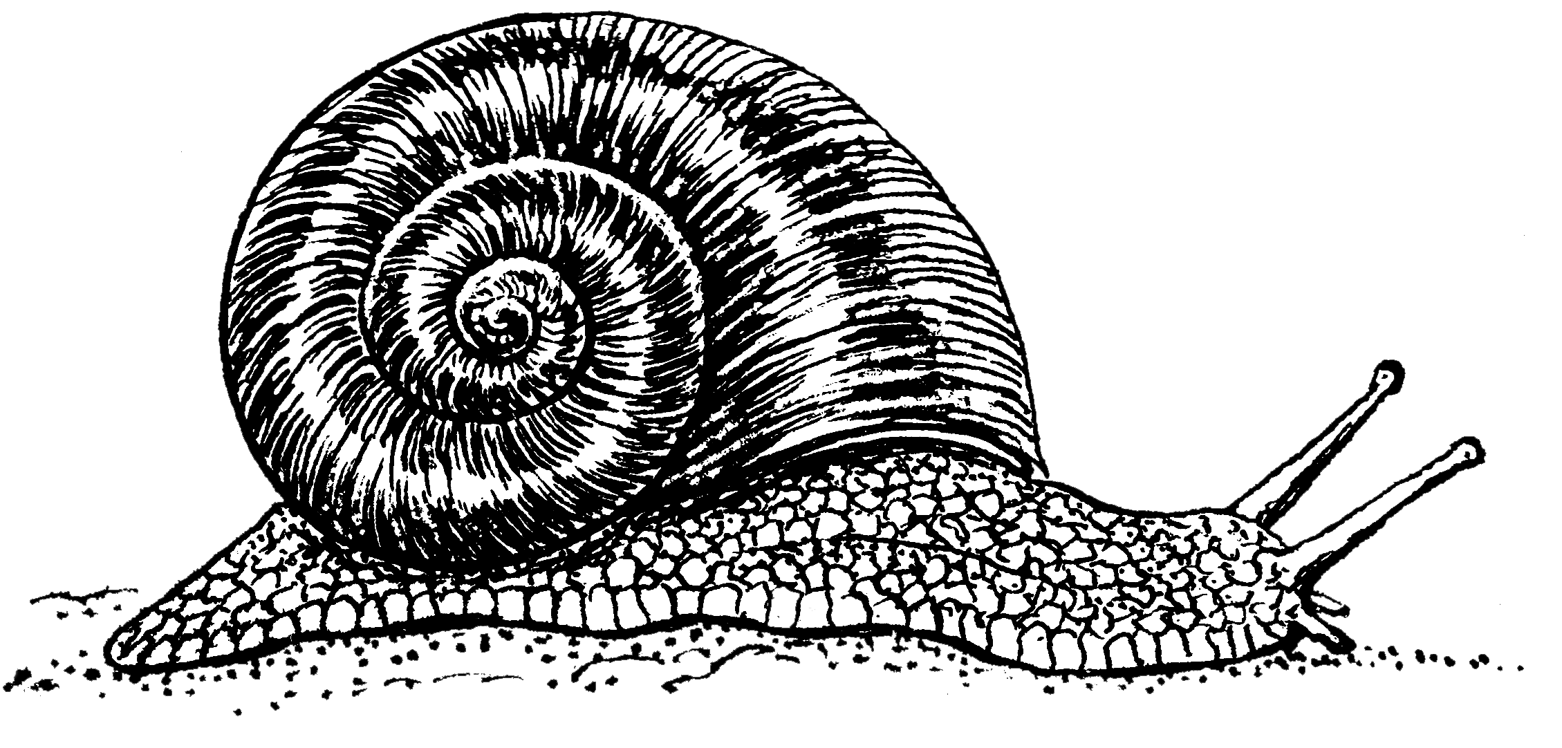 Line art drawing of a snail, Helix sp..